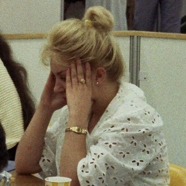 Malgorzata Wiese, Chess Olympiad 1986 in Dubai, Photographer Gerhard Hund.